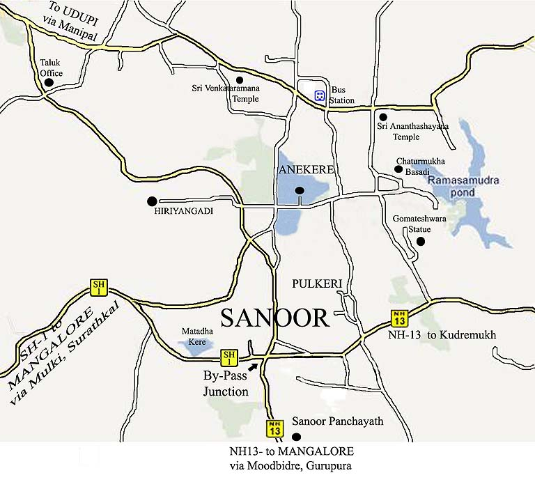 Shows the route to reach from nearest towns of Kudremuh, Mangalore and Udupi